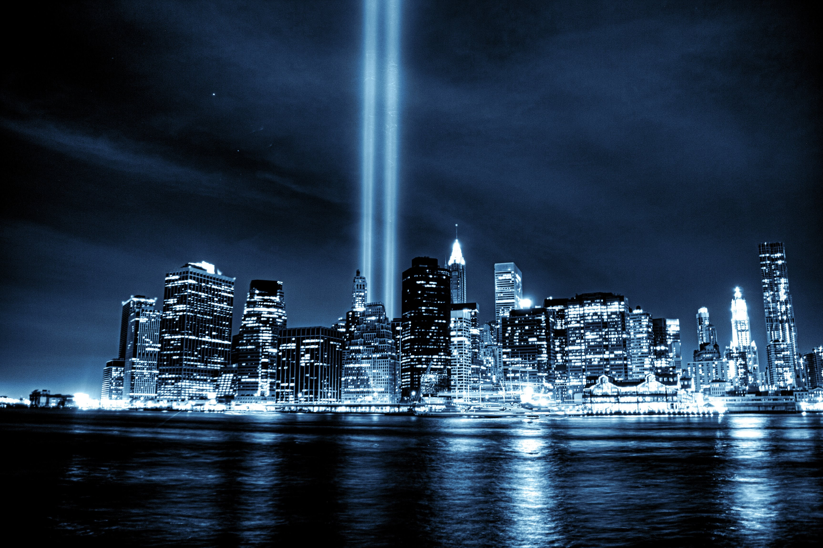 September 11, 2010 - World Trade Center Tribute in Light, New York (experimenting with black and white with cyanotype toning)